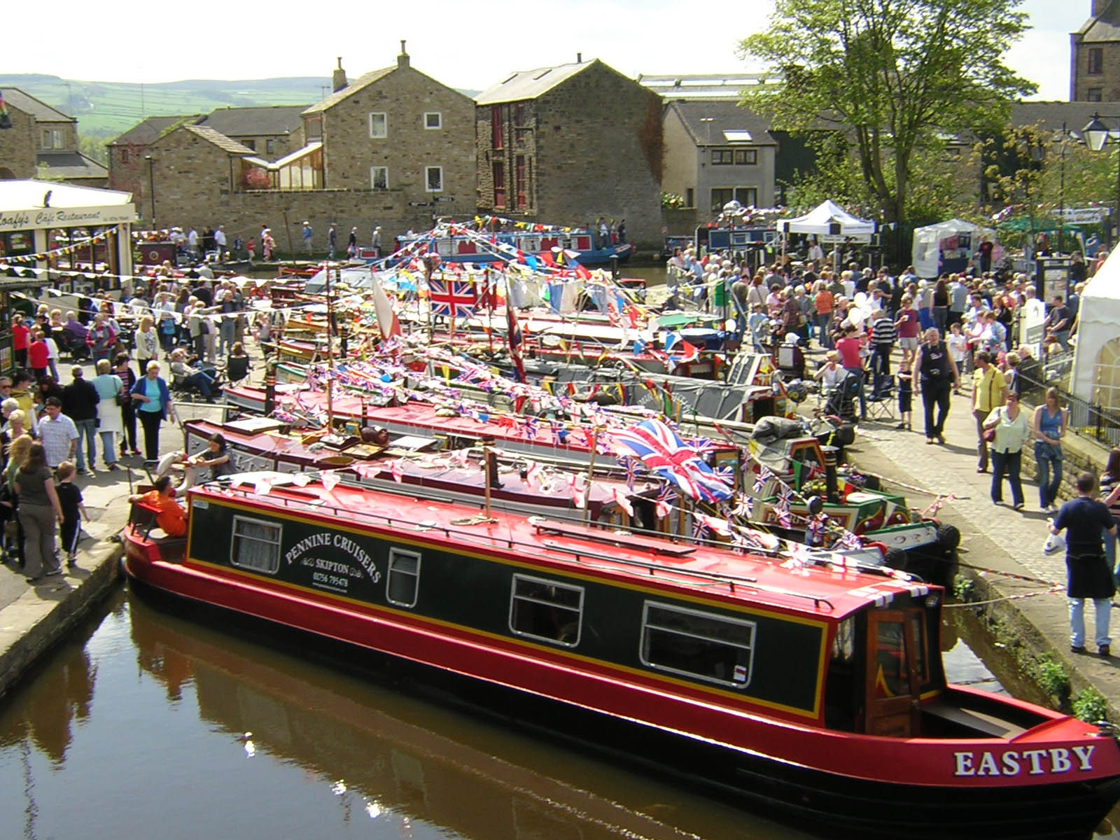 Skipton May Boat Festival